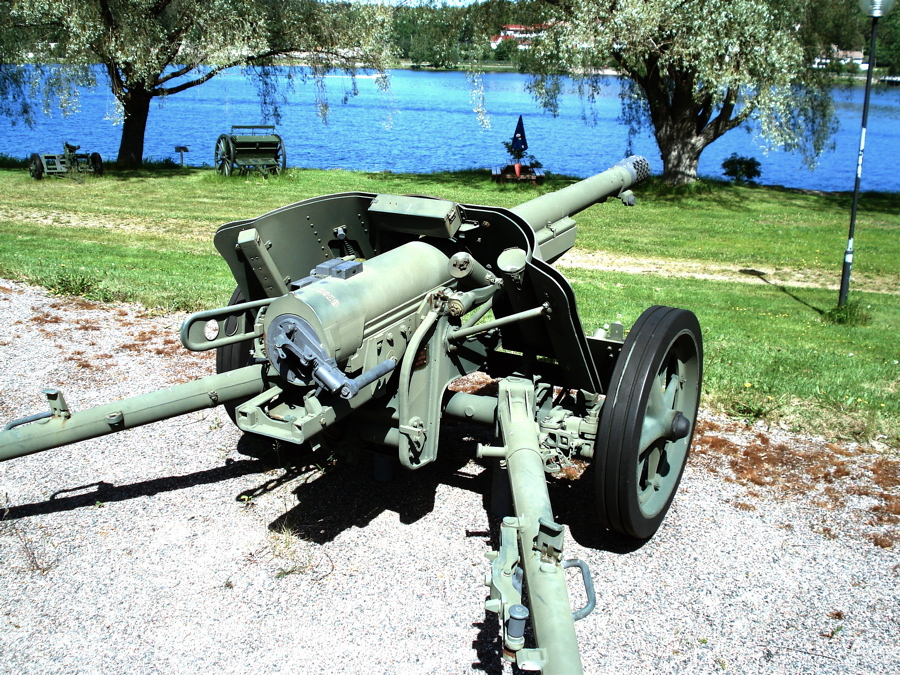 French 75 mm M1897 gun mounted on carriage from the 50 mm M1938 anti-tank gun, displayed in Hämeenlinna Artillery Museum. This combination anti-tank gun was produced by Germany during World War II as an emergency measure to counter Russian T-34 and KV tanks on the Eastern Front. Photo taken on June 18, 2006. Source: Photo by me, User:Balcer.